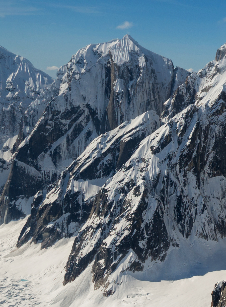 Mount Johnson aerial view from Ruth Gorge, Denali National Park